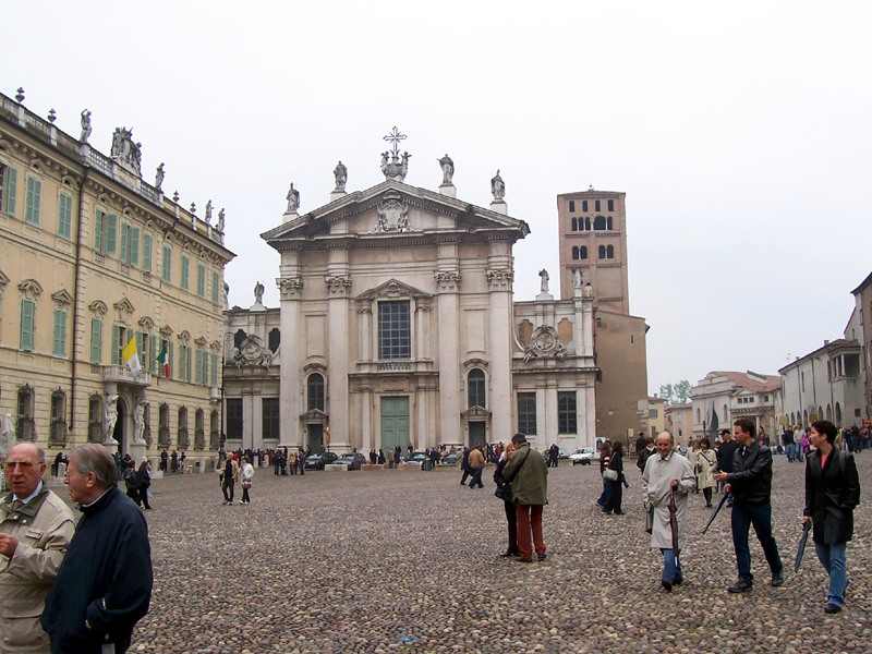 Mantova - Cathedral